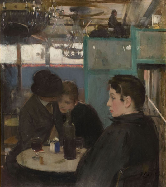 Ramon Casas- MNAC- Interior del Moulin de la Galette